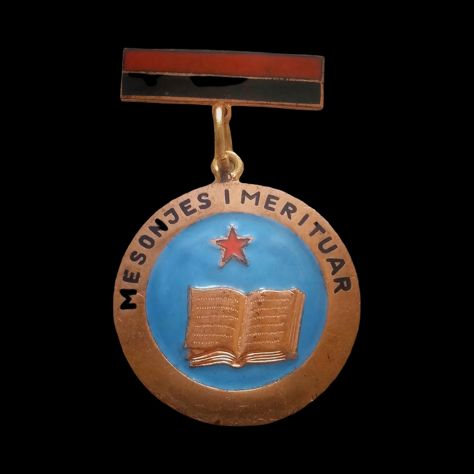 Title "Merited Teacher" (Class II)